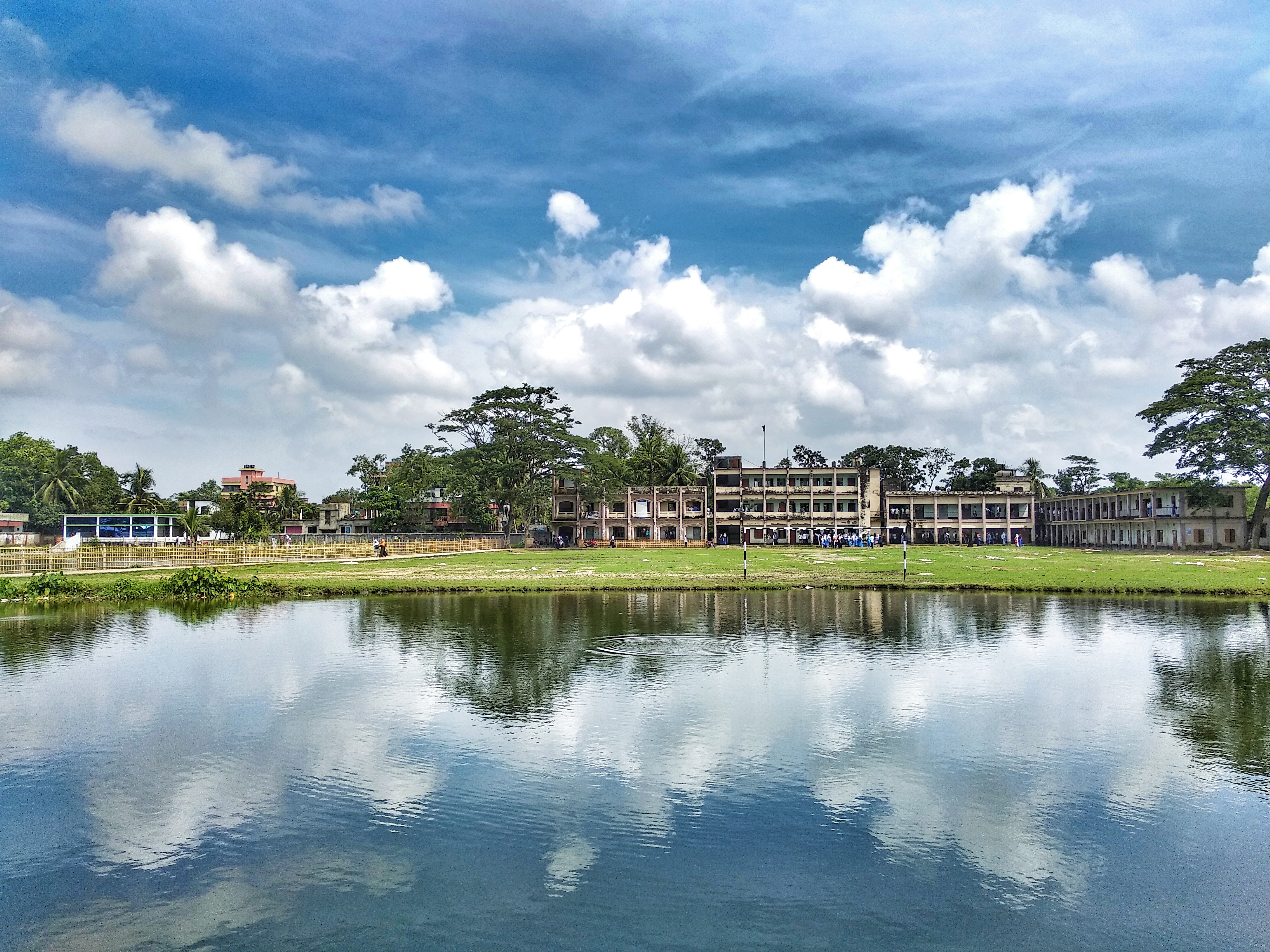 Shahid Shriti Degree College, Akhaura Upazila